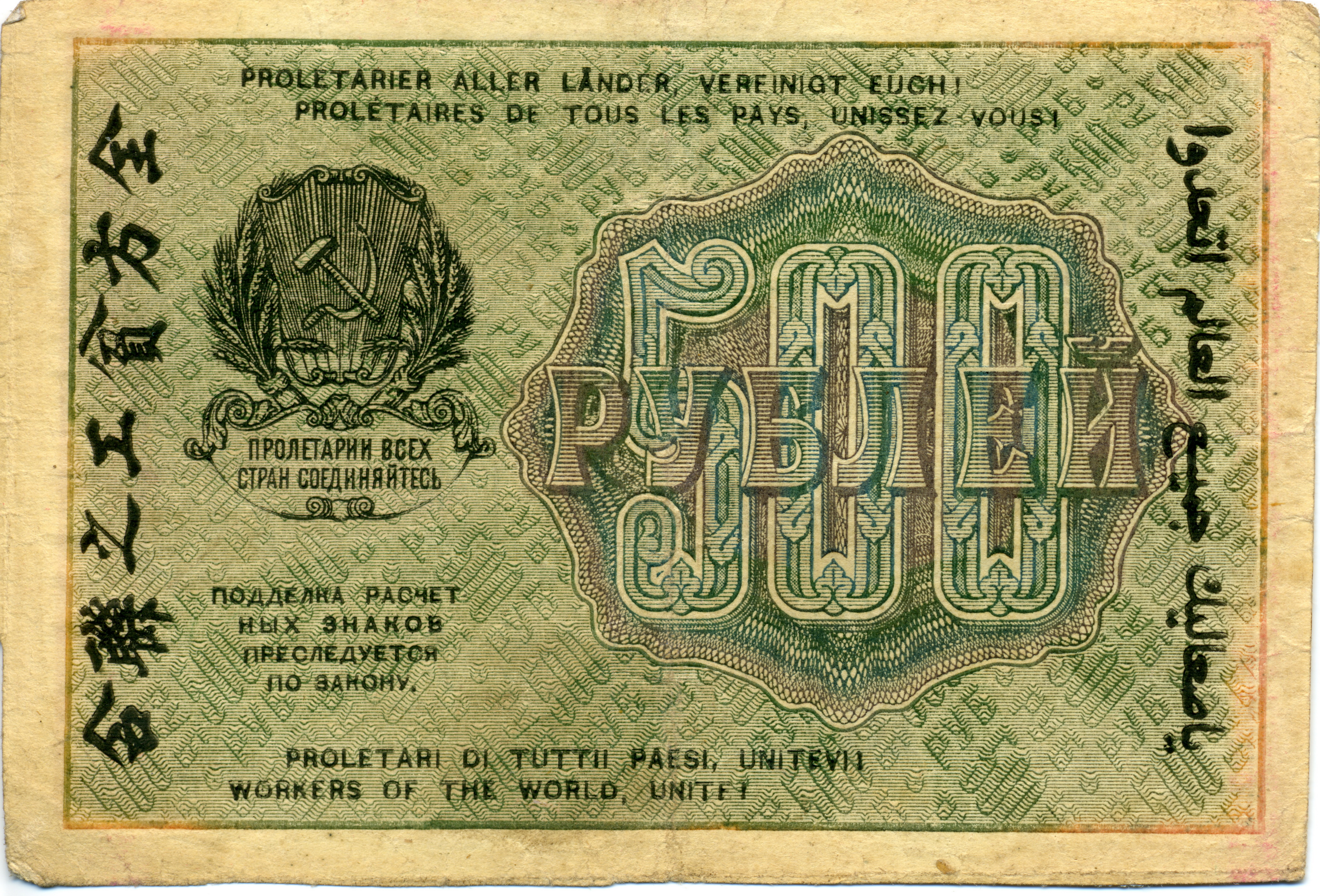 'Sovznaki' of Soviet Russia, 500 roubles. Back.